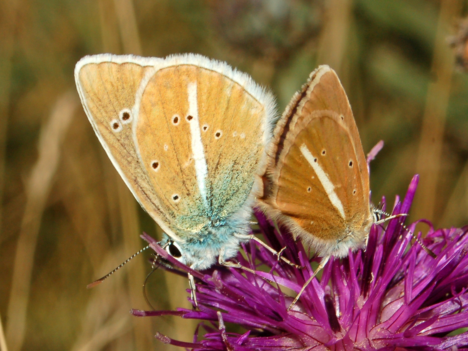 Polyommatus damon. Mating pair. Val d'Aista, Italy